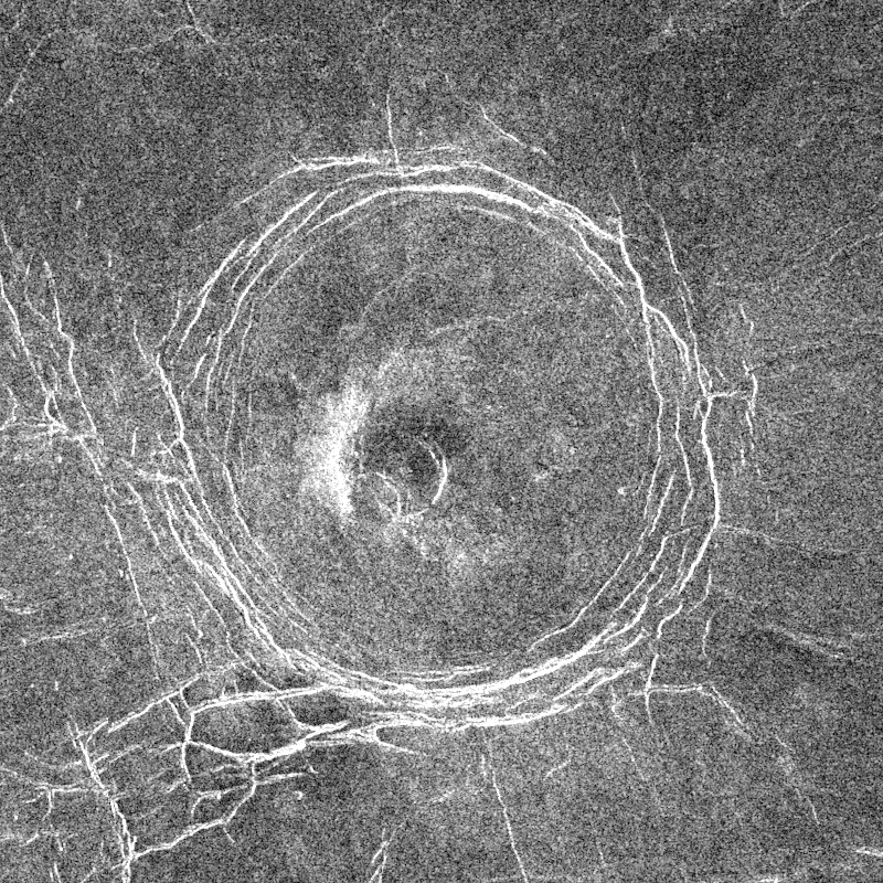 Small volcano Toci Tholus on Venus. Radar image by Magellan, made in Left-Look mode. Width of the image is 60 km, north is up.